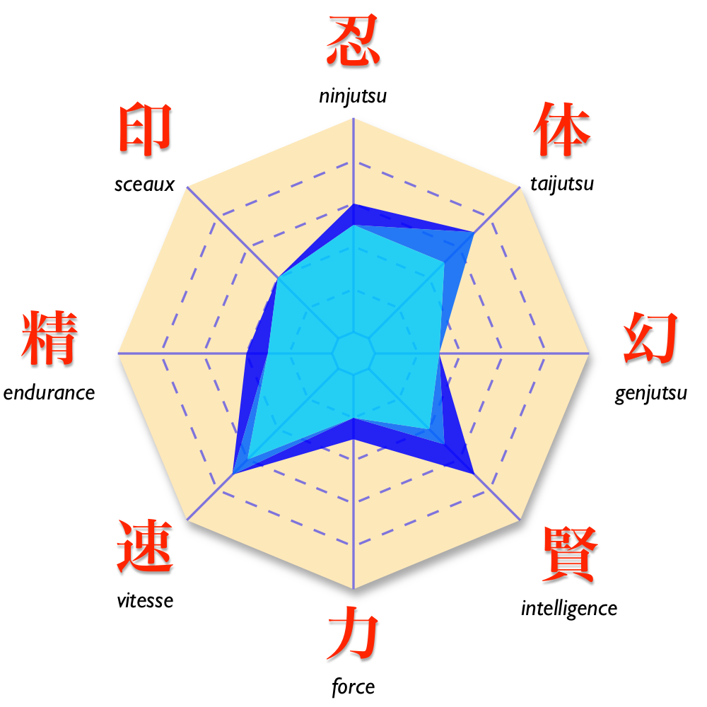 Naruto manga - Character "Tenten" - Capabilities evolution diagram from Official Databooks data